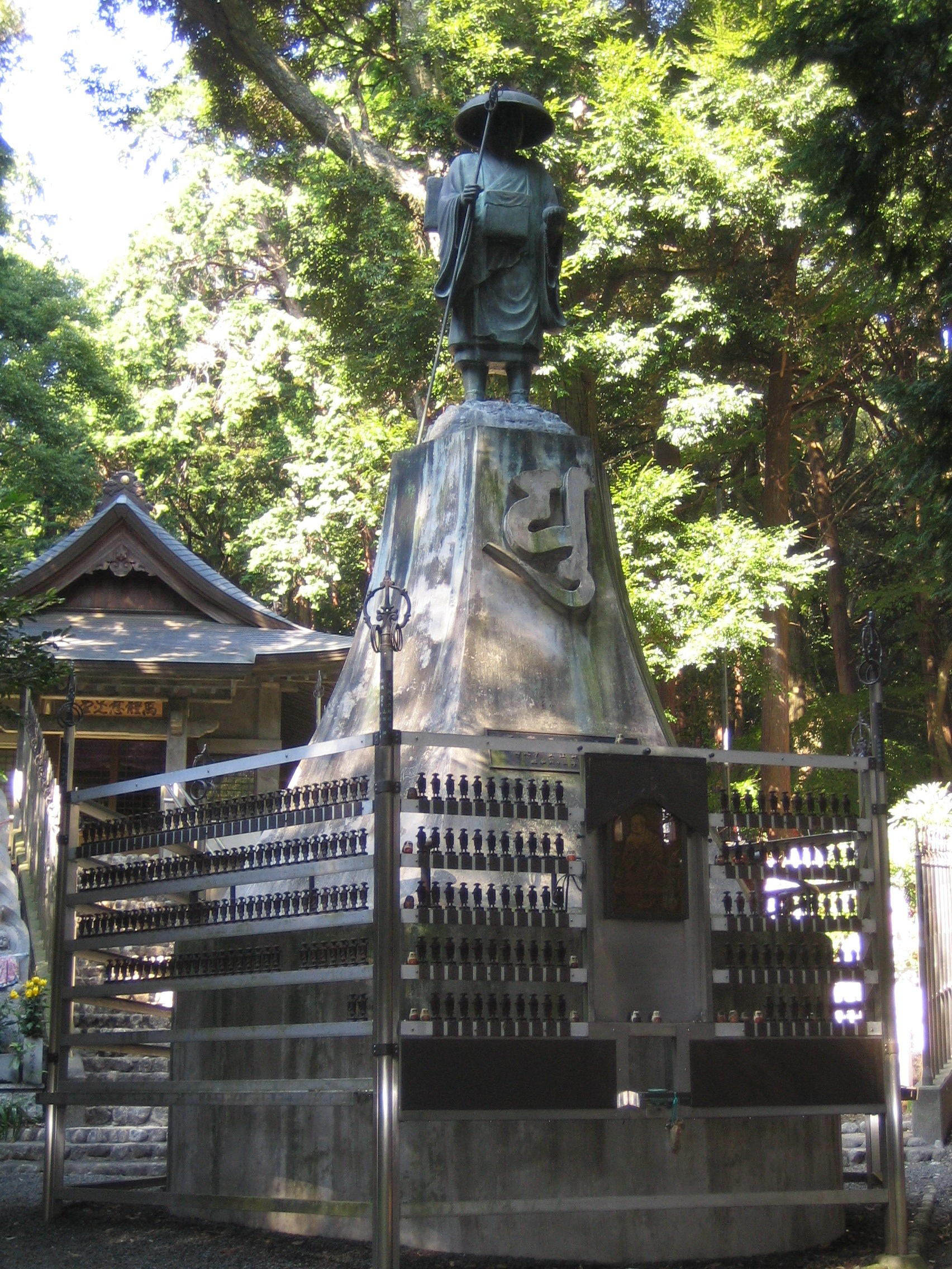 Zaikaji Temple (財賀寺), located at 3 Kan'nonzan, Zaika, Toyokawa, Aichi, Japan